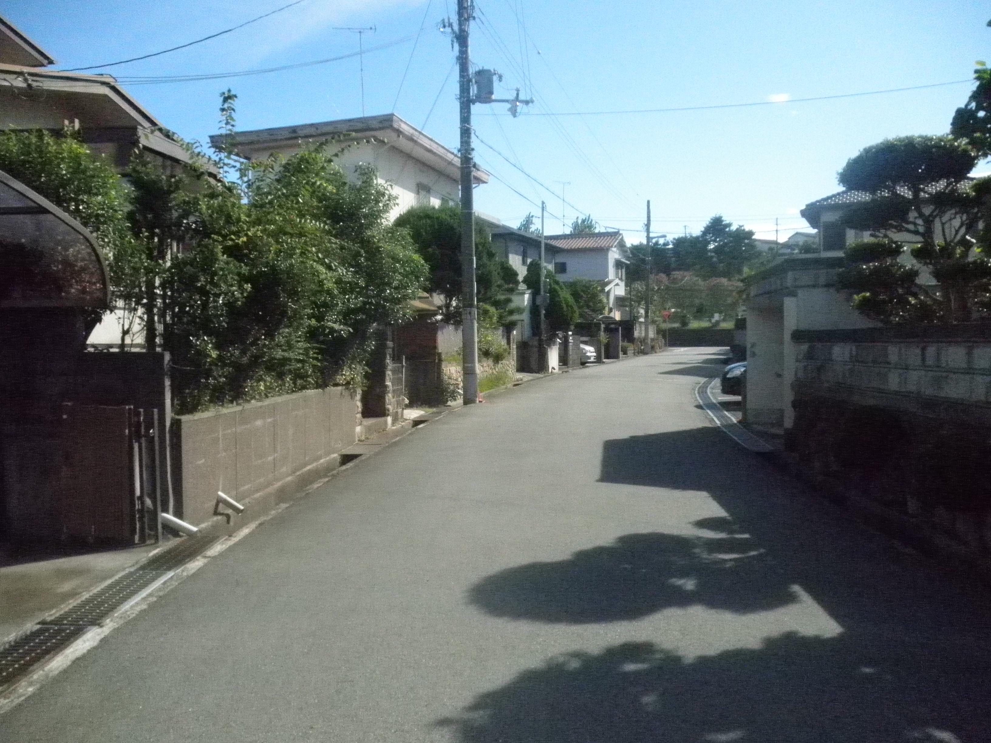 Midorigaokatown Naka1 Mikicity Hyogopref